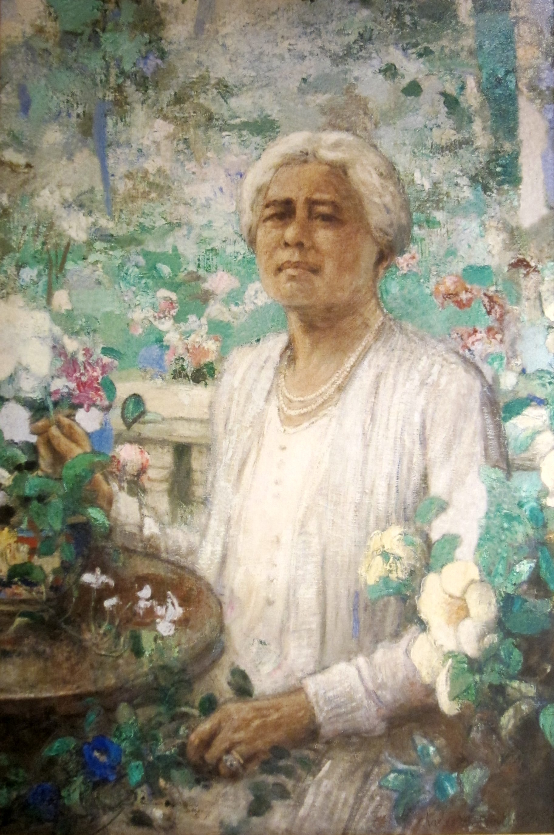 Portrait of Emma Kauikeolani Wilcox